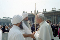 This is a photo of Yogi Bhajan and Pope John Paul II meeting at the Vatican in August 1984.